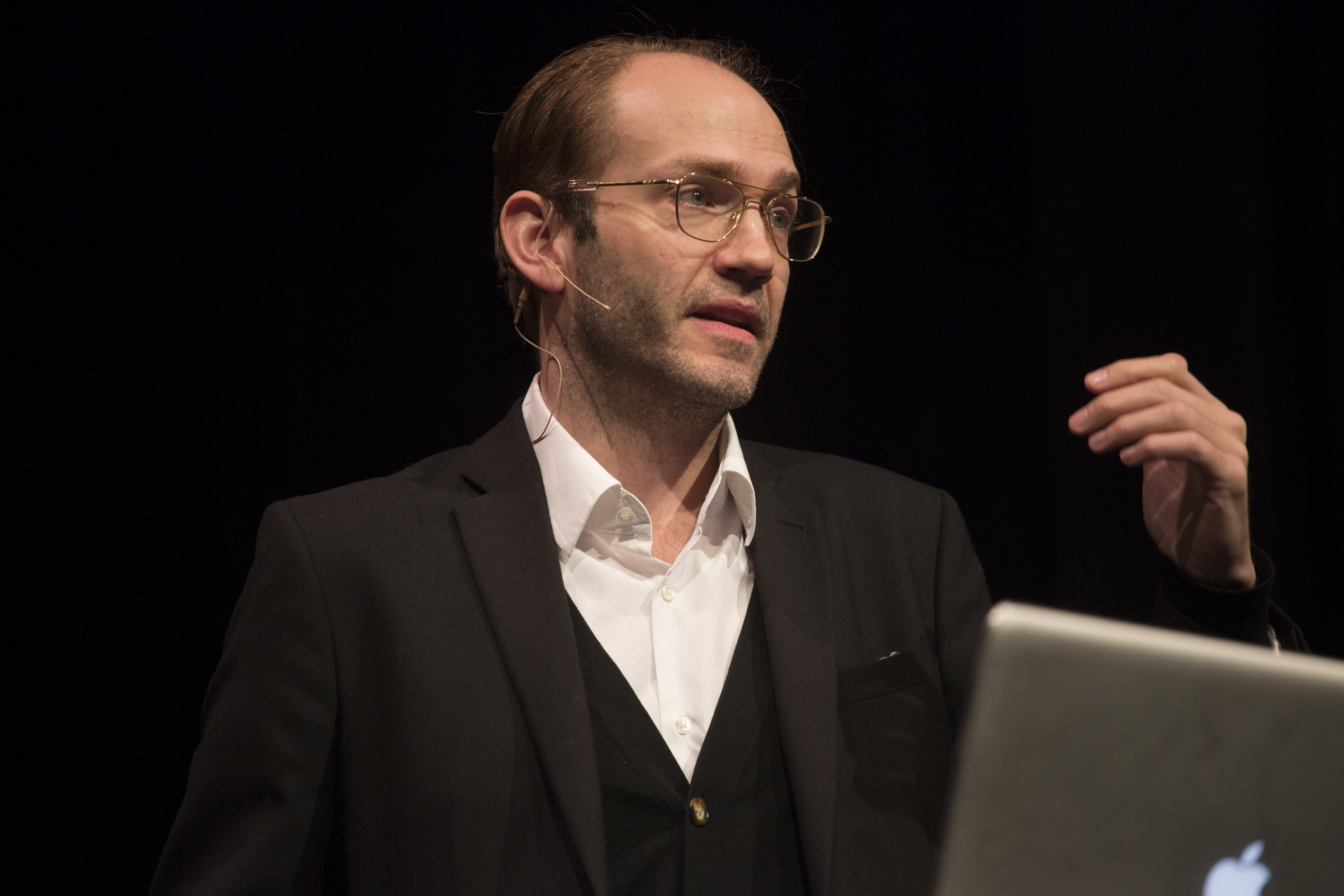 Swiss designer Ludovic Balland at TYPO San Francisco 2013.